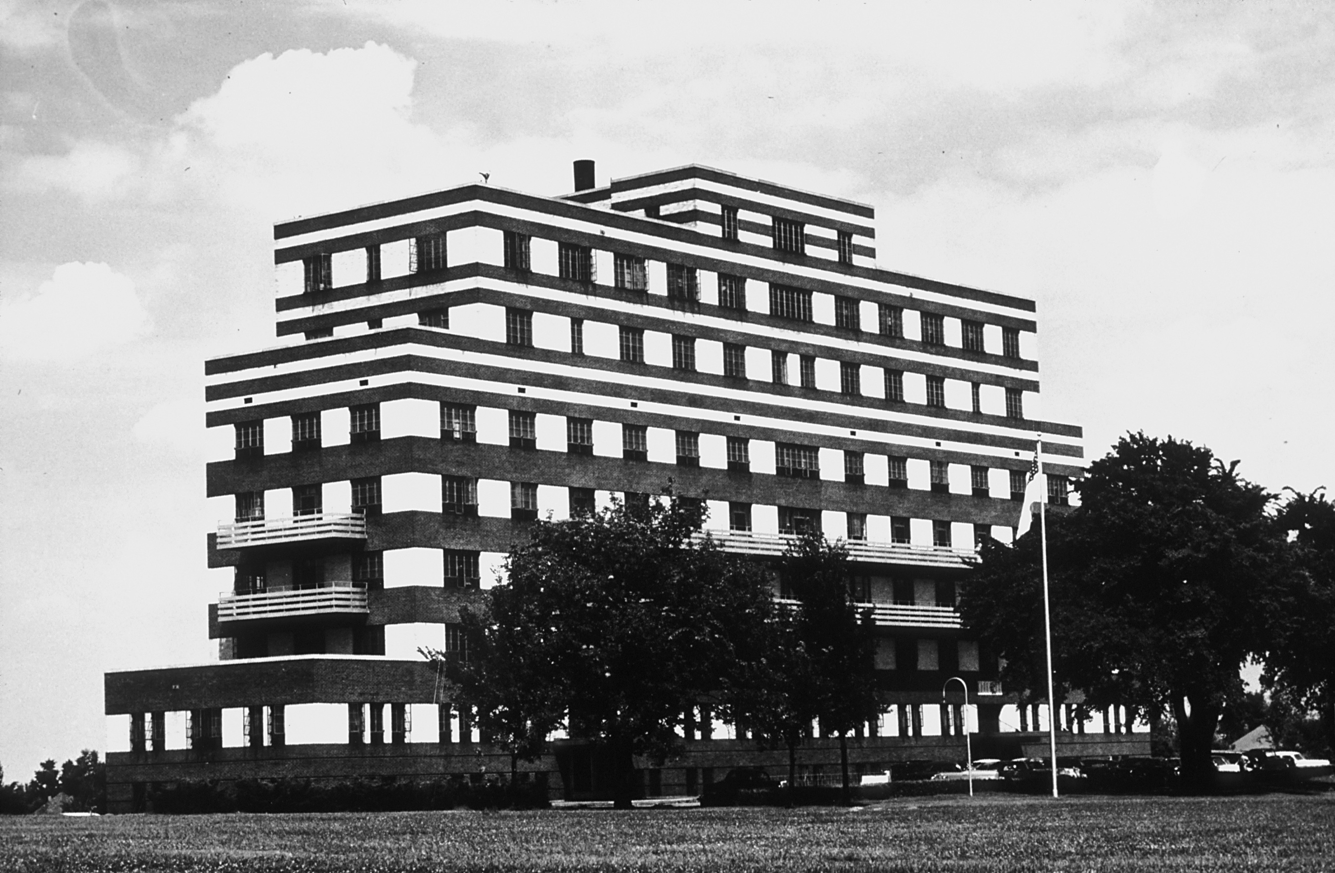 Title Ellis Fischel State Cancer Hospital Description Photo of Ellis Fischel State Cancer Hospital, Missouri, in 1940 and in early 1980's. Topics/Categories Historical, Graphics Type B&W, Photo Source National Cancer Institute